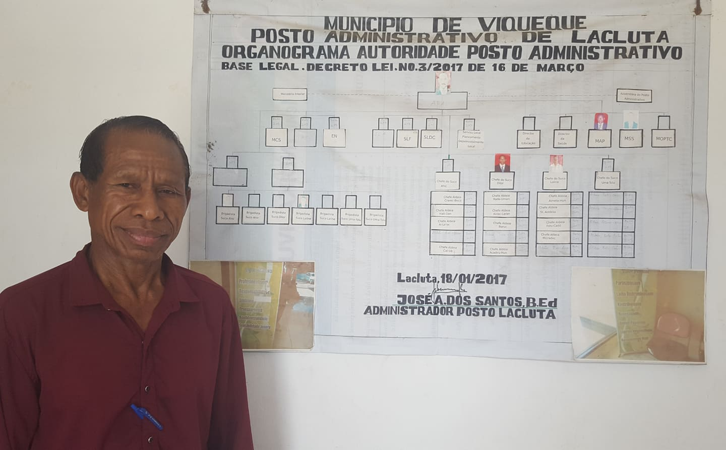 José Andrade dos Santos, administrator of administrative post of Lacluta, East Timor